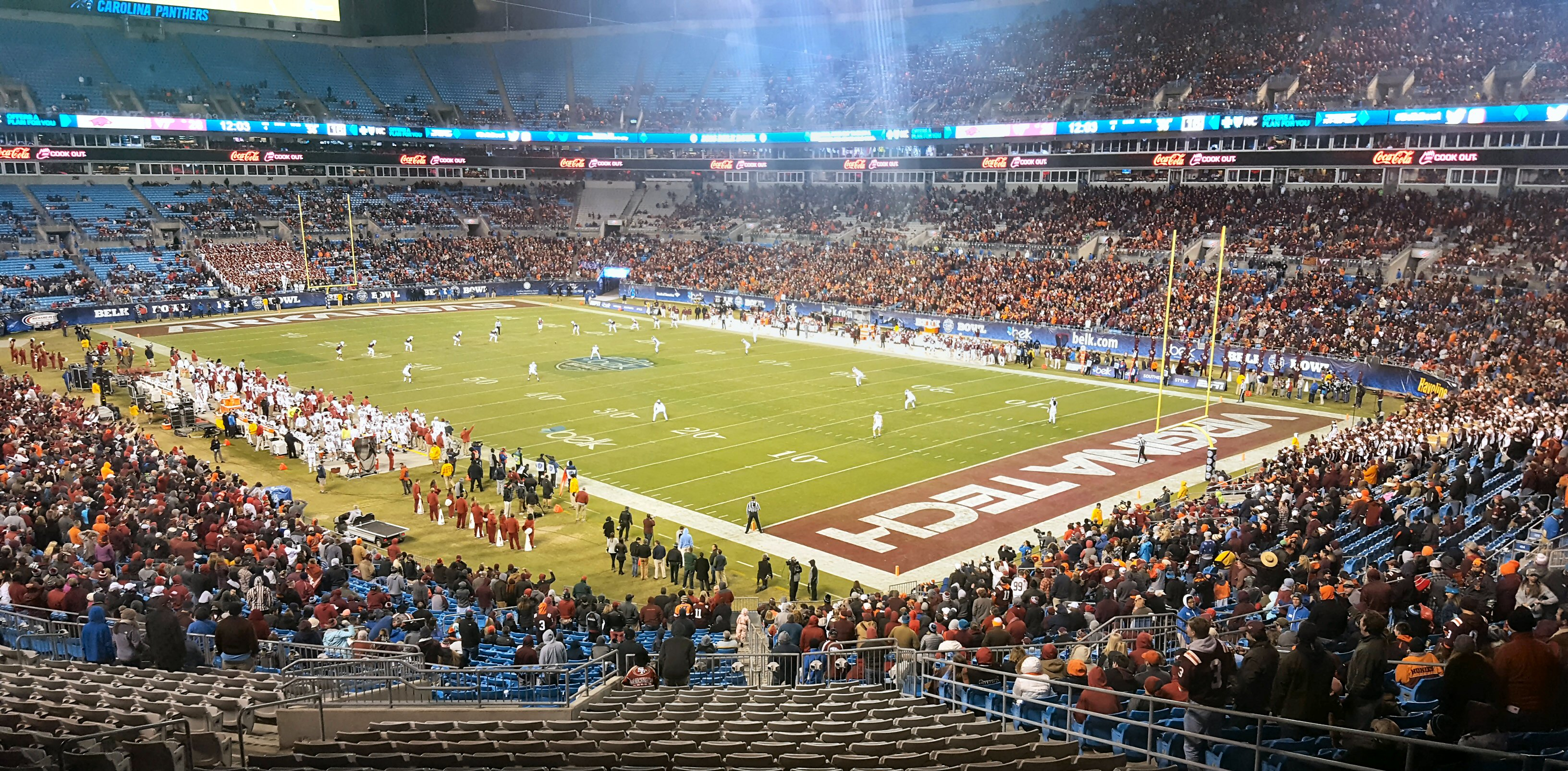 Opening kickoff at the 2016 Belk Bowl between Arkansas and Virginia Tech